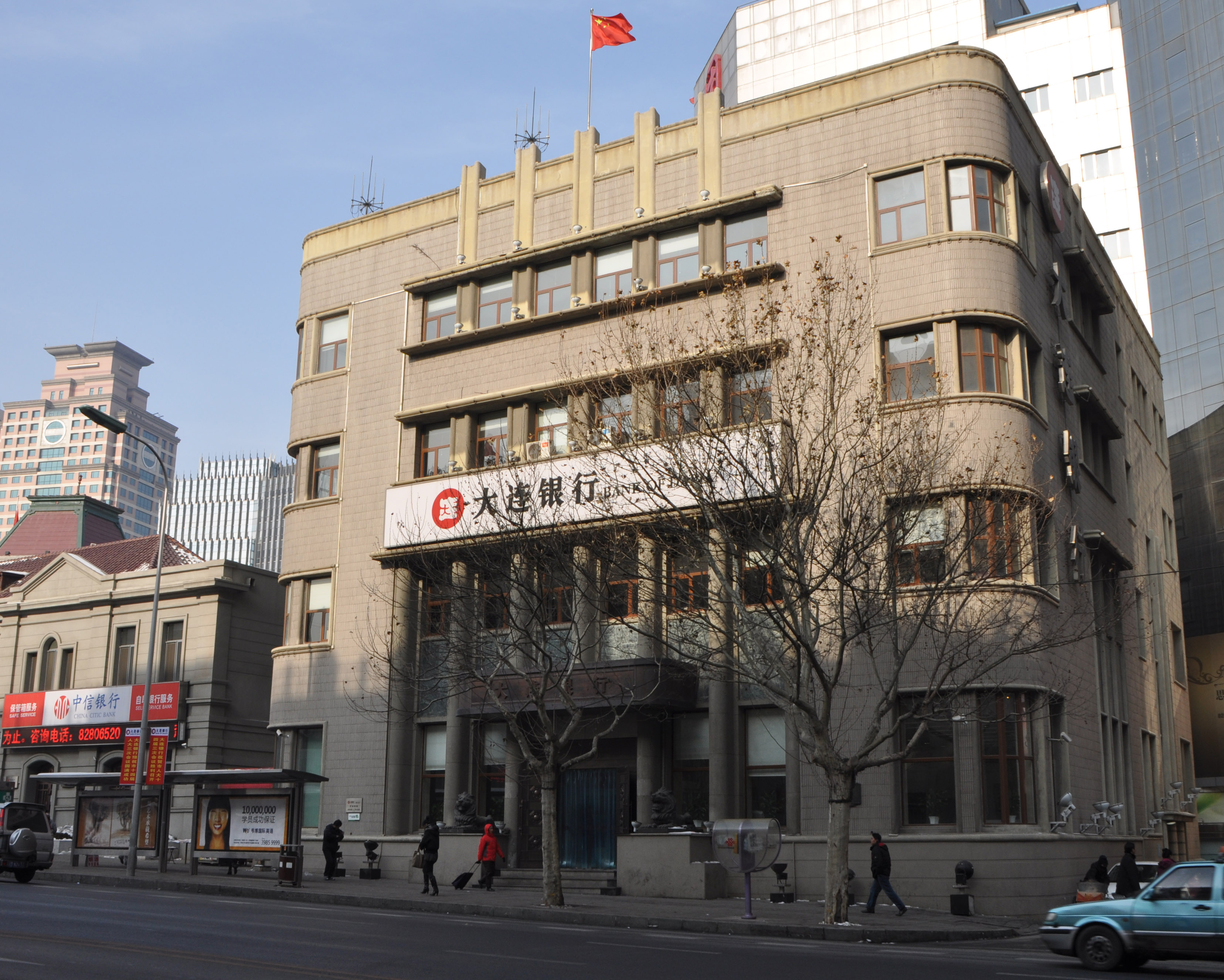 Former Bank of Taiwan - Dalian Branch